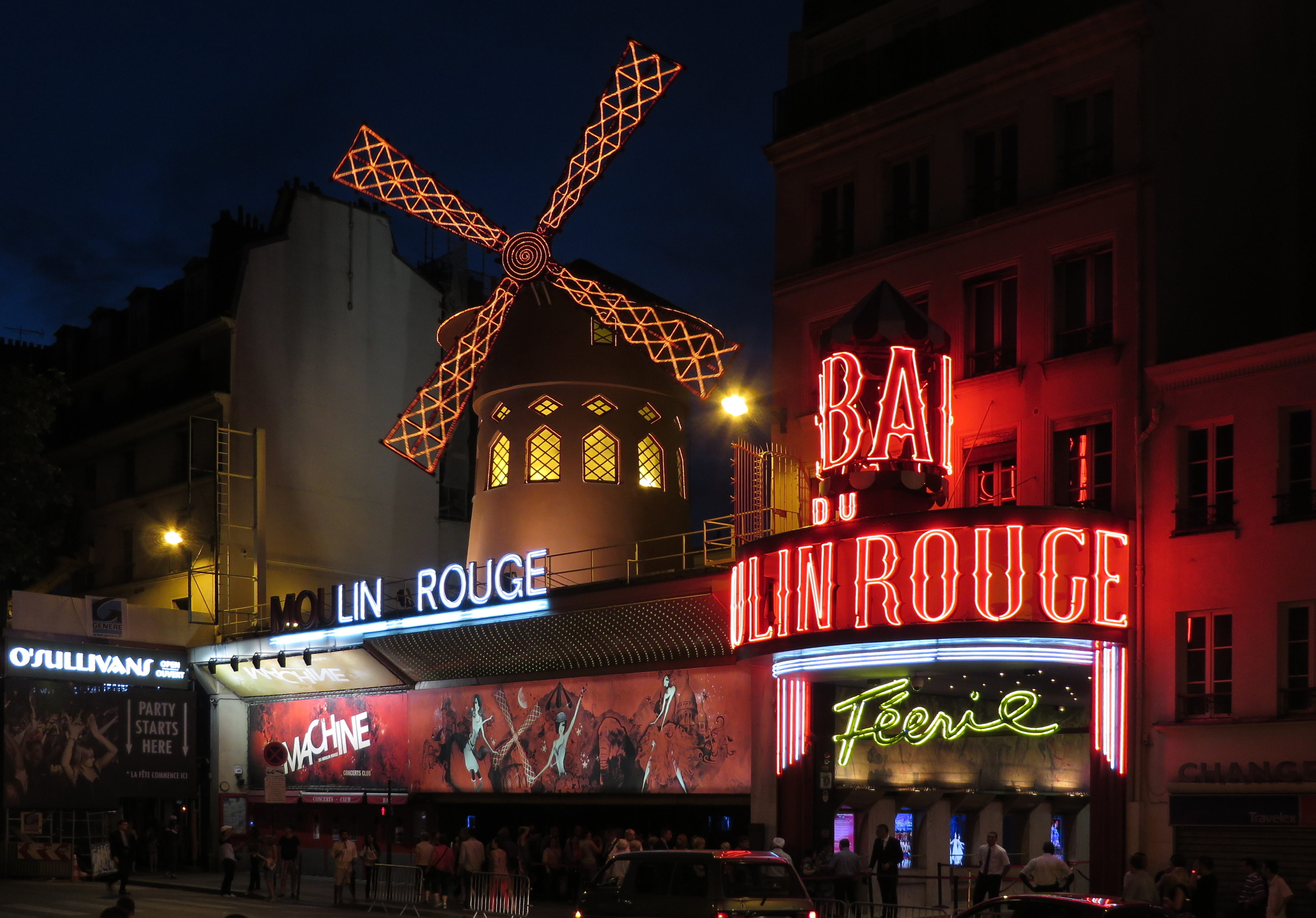 Moulin Rouge, Paris